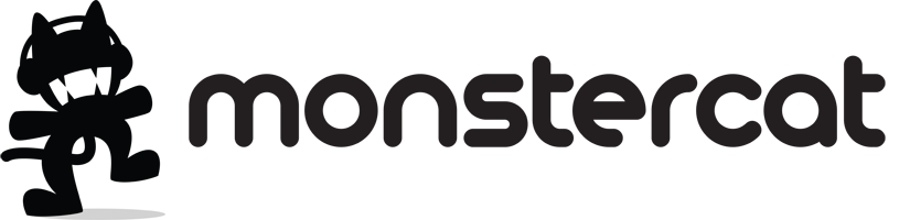 Monstercat logo with text